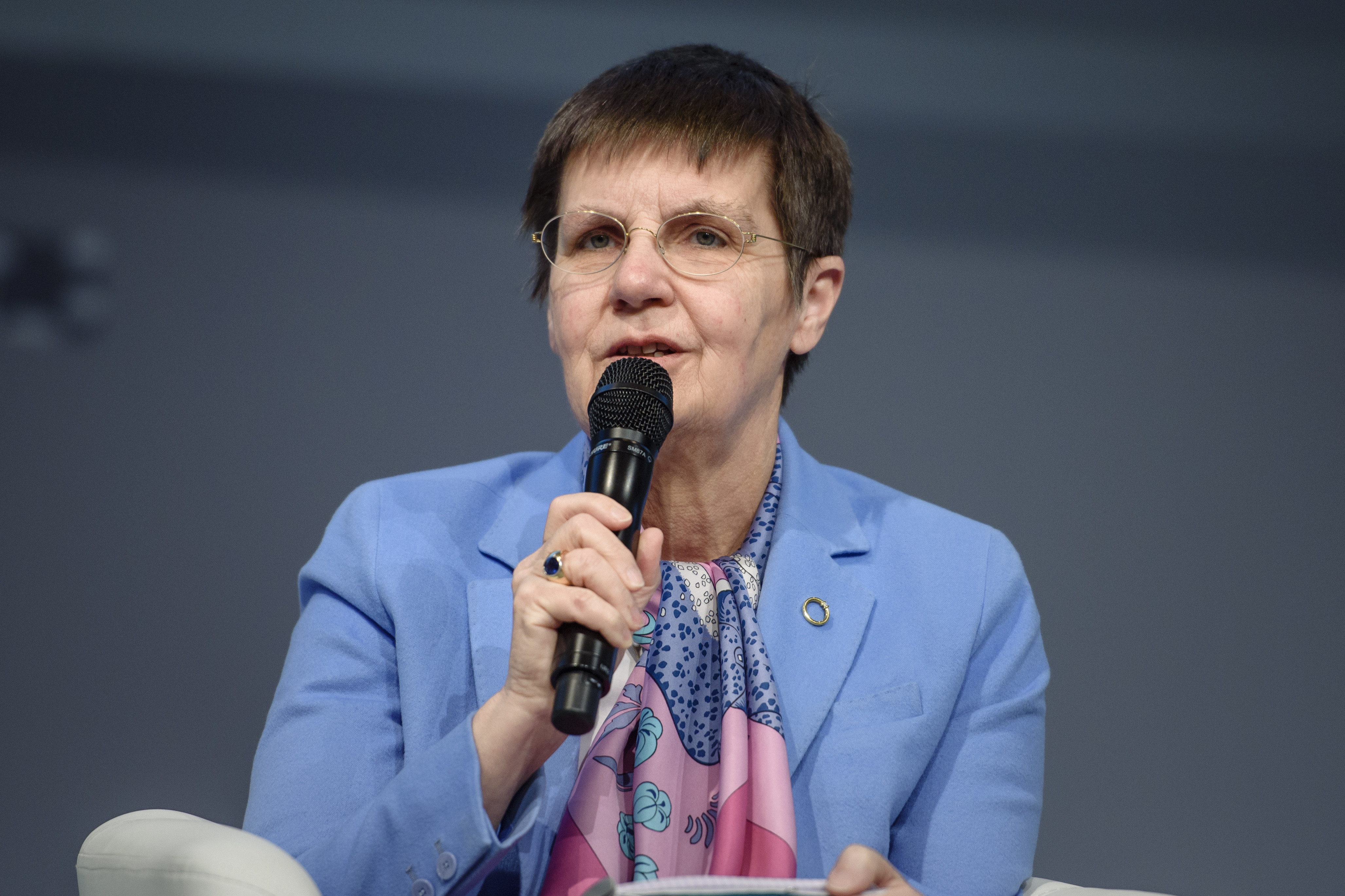 Dr. Elke König, Vorsitzende des Single Resolution Board, beim Bankentag.